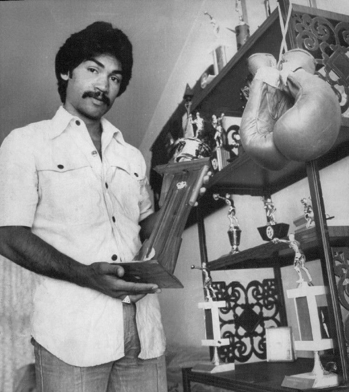 1976 Mexican Welterweight Champion Boxer Carlos Palomino Press Photo